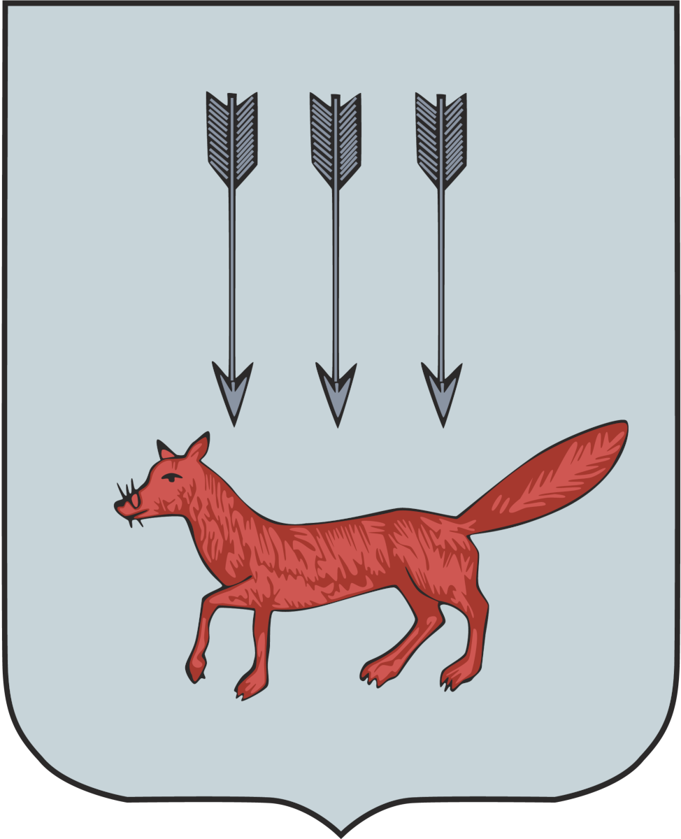 Saransk (Mordovia), coat of arms (1781)